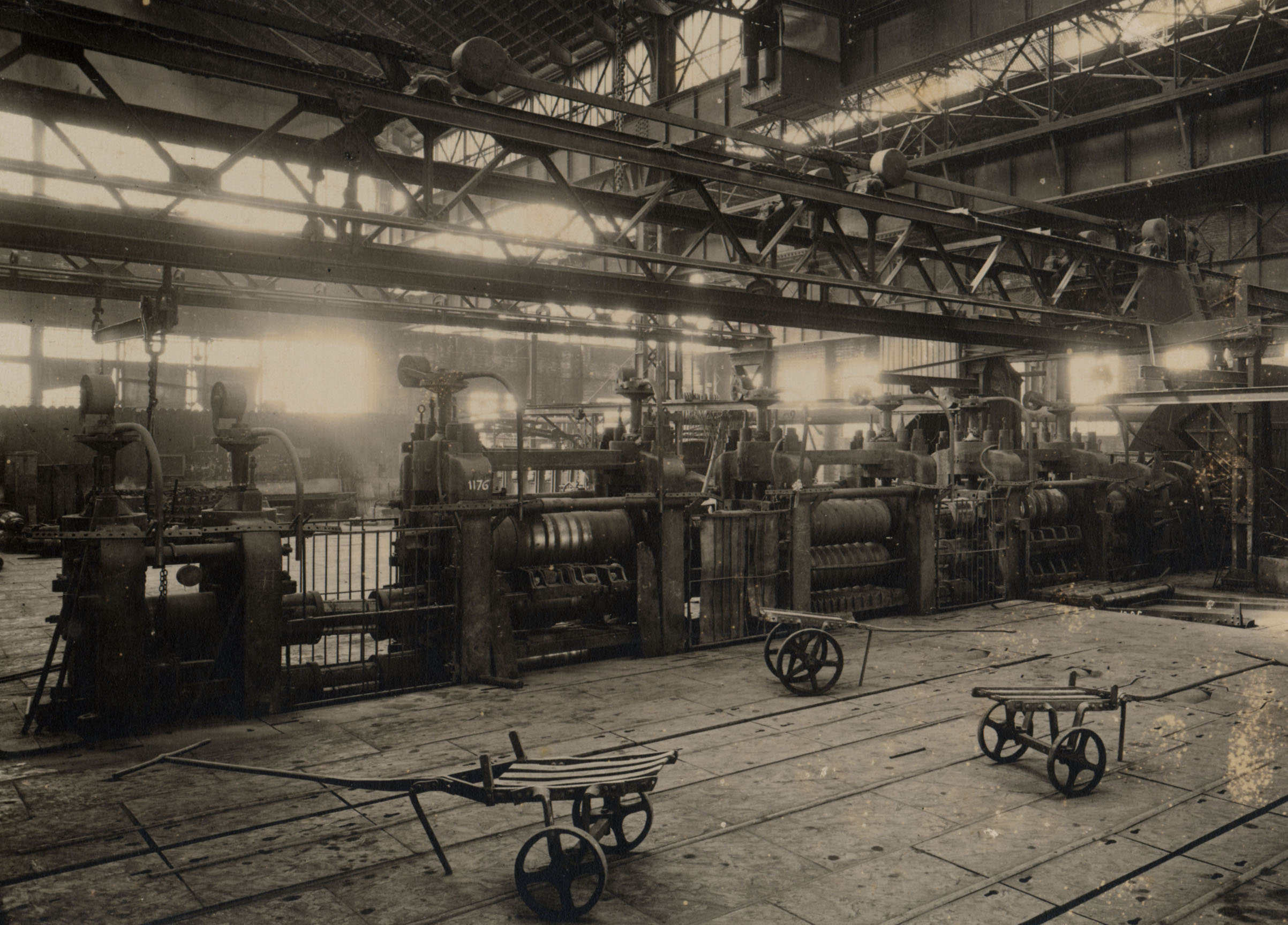 Rolling mill in Saut du Tarn steelworks